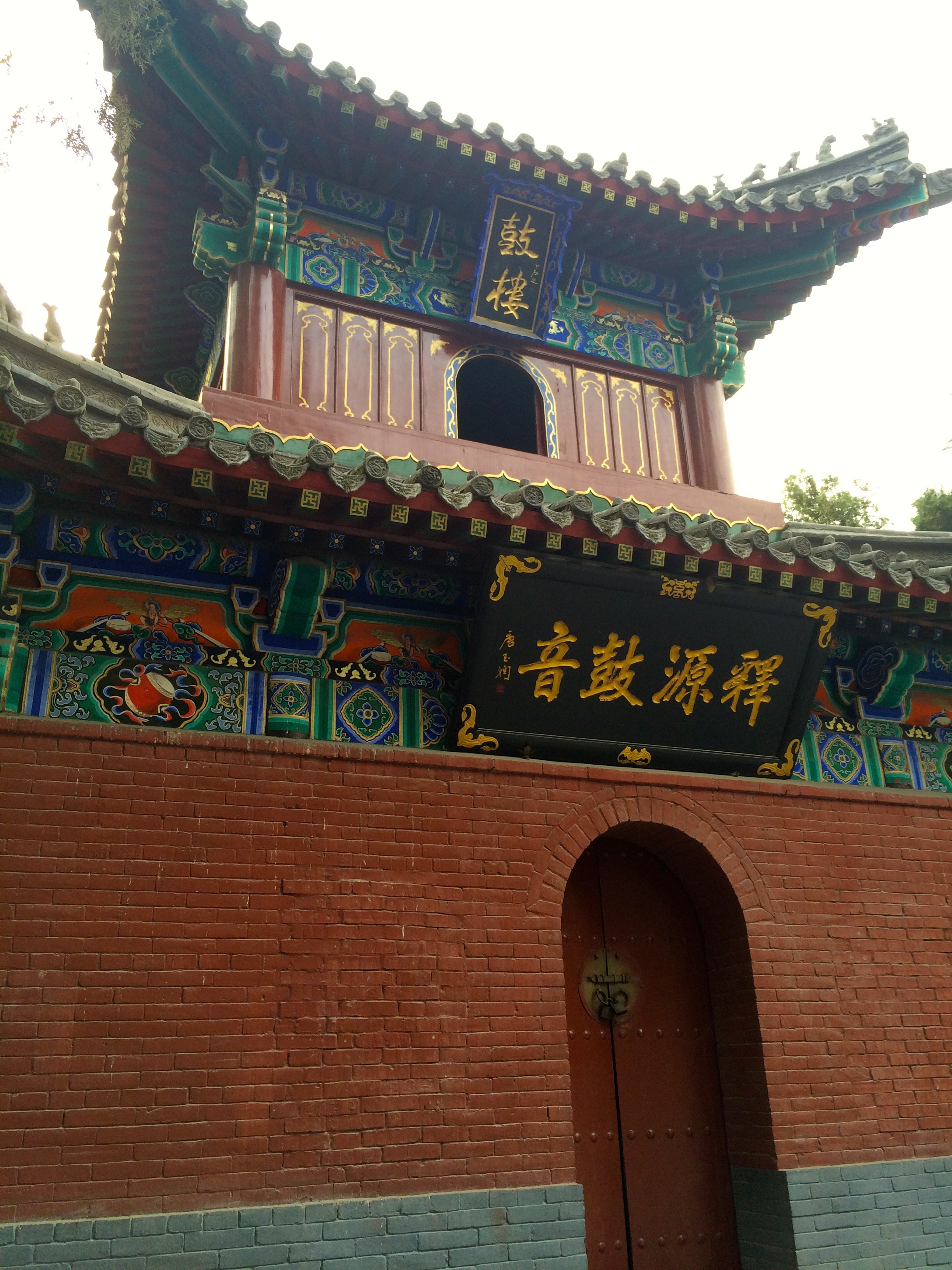 Drum Tower, White Horse Temple, Luoyang, China